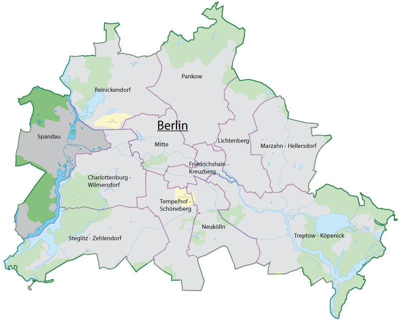 Author: Felix Hahn Source: Based on Water map of Berlin Description: Map of Berlin and its districts.